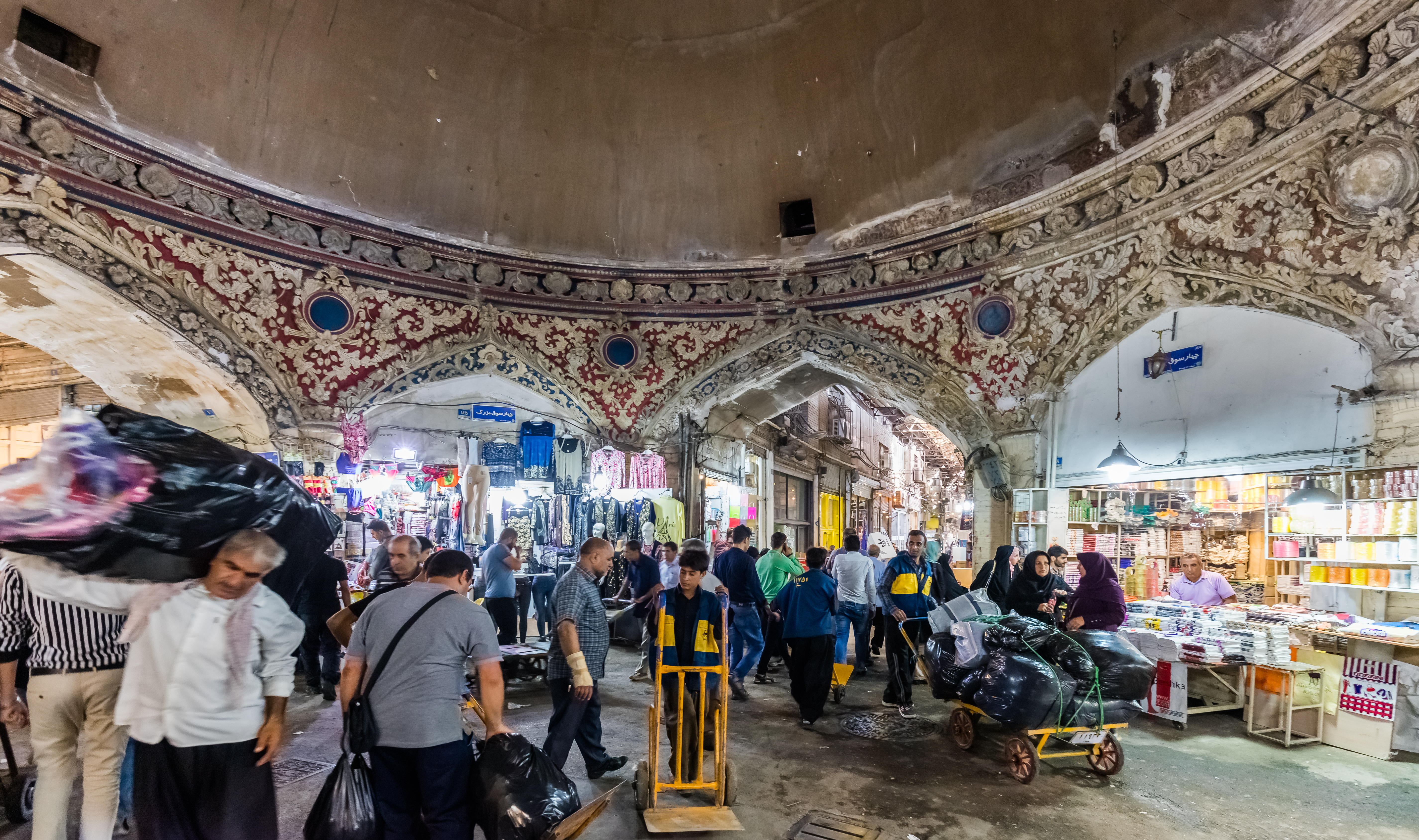 Grand Bazaar, Tehran, Iran